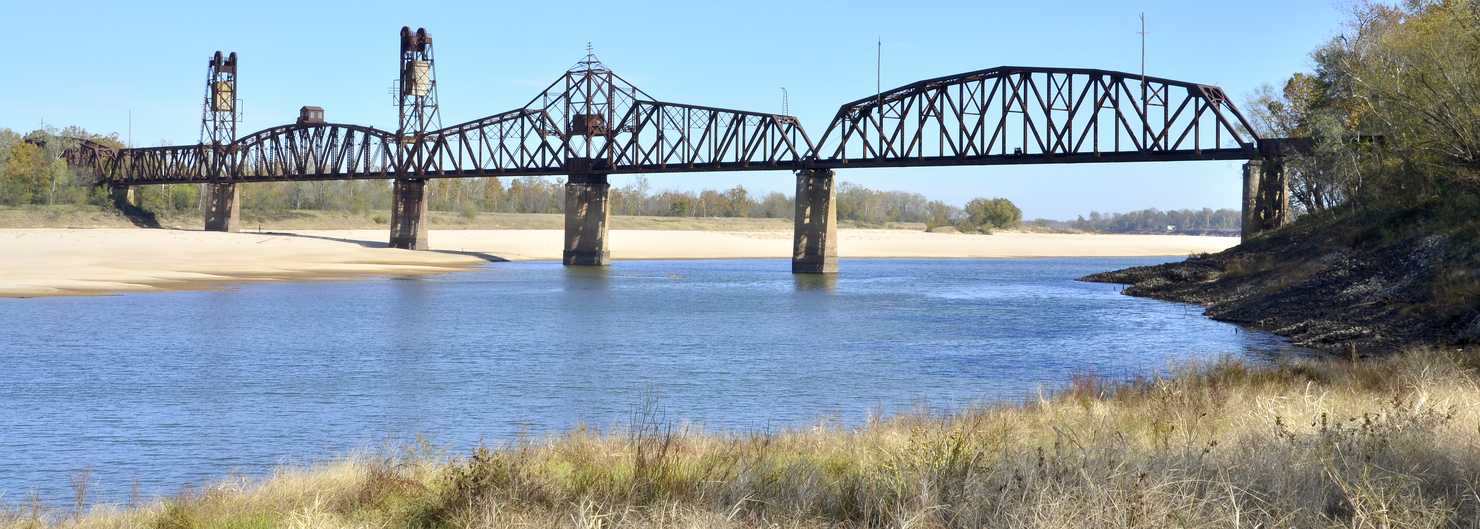 Yancopin Bridge across Arkansas River. The bridge will be included on a portion of the Delta Heritage Trail State Park.